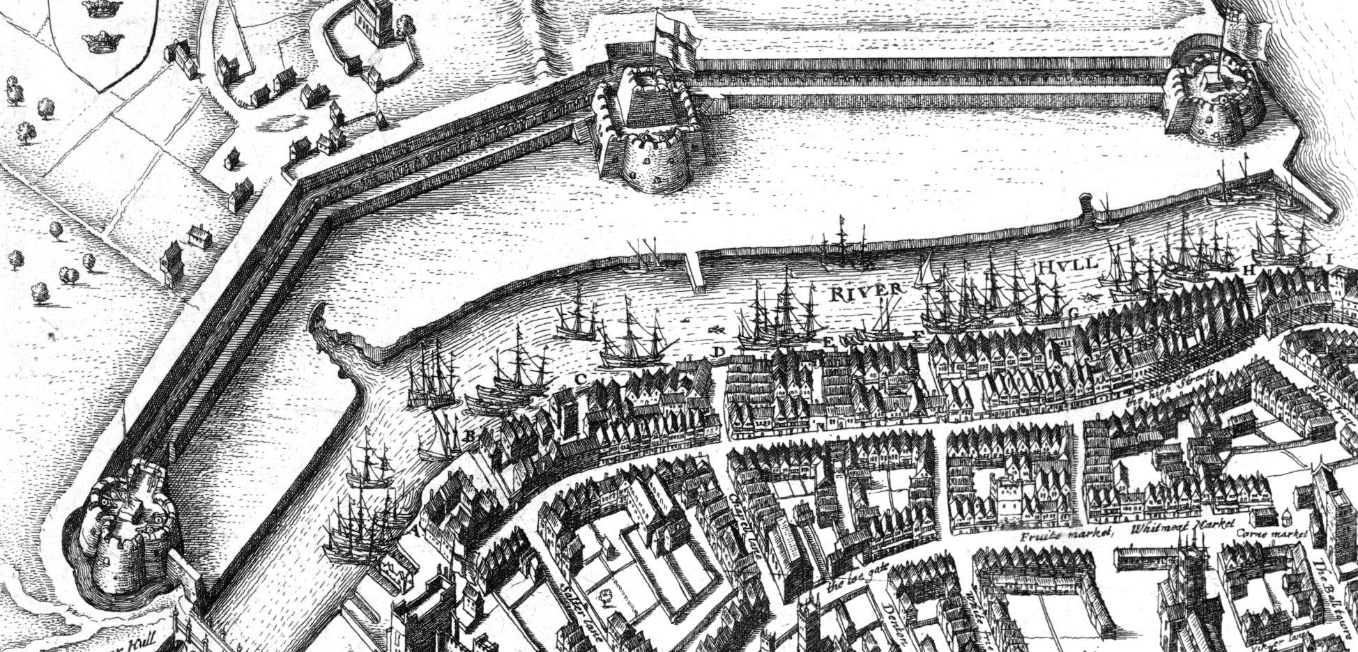 Detail of map of Hull